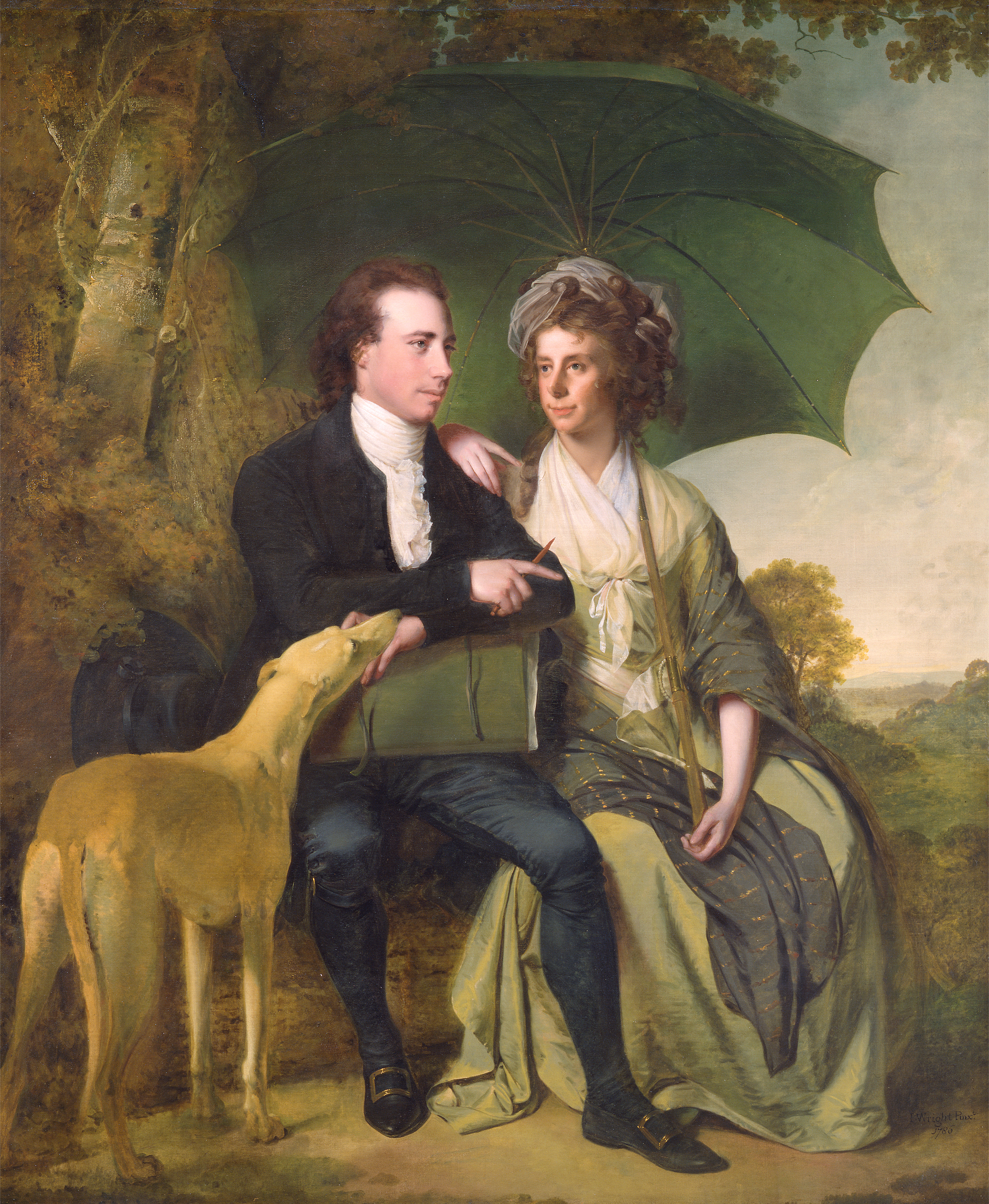 Gisborne was born at Bridge Gate, Derbyshire, the son of John Gisborne of Yoxhall Lodge in Needwood Forest, Staffordshire and his wife Anne Bateman. He was educated at Harrow and entered St John's College, Cambridge in 1776, where he established life-long friendships with William Wilberforce and Thomas Babington.